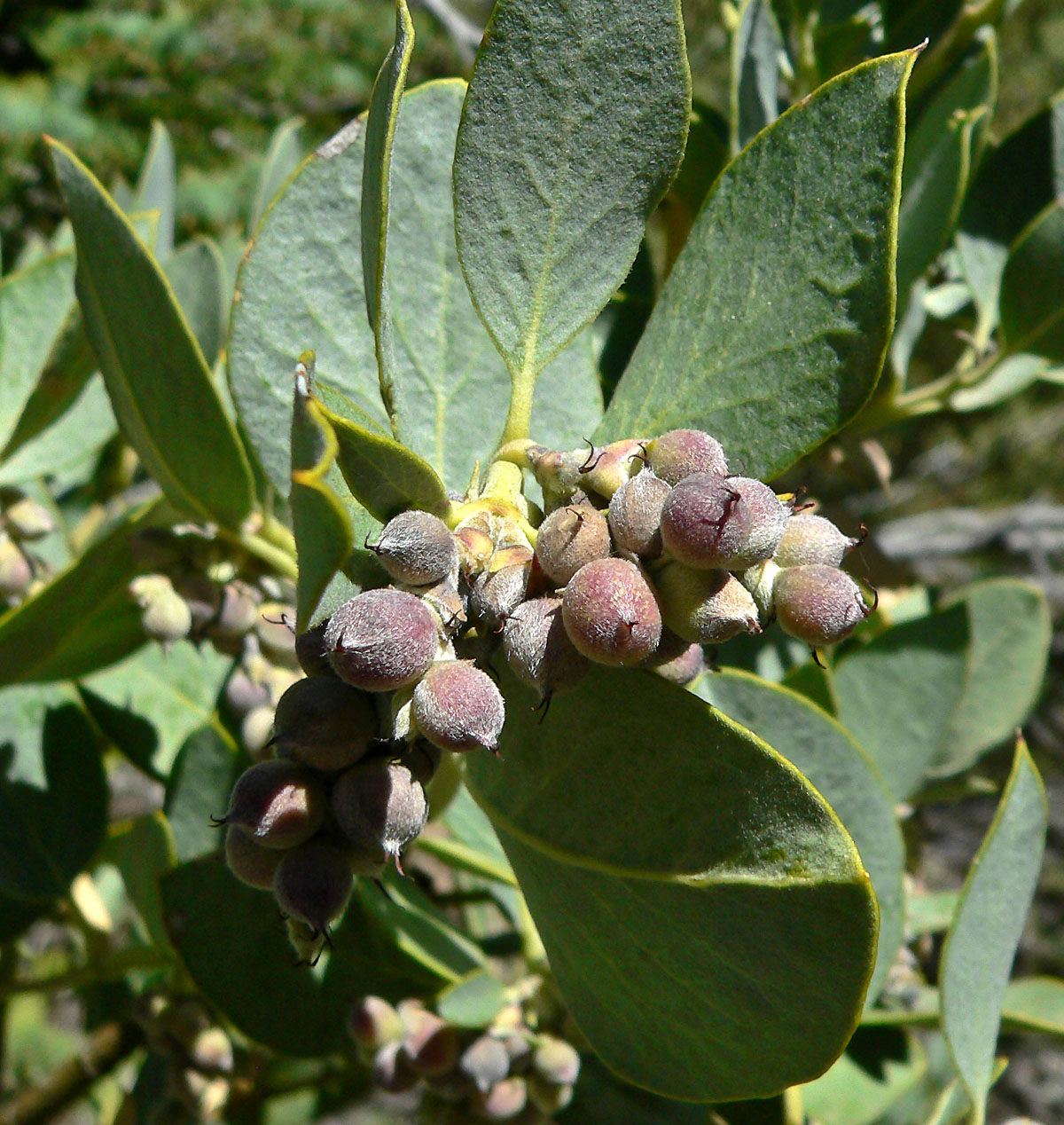 Garrya flavescens — Ashy silktassel. In Kyle Canyon (elev. about 2300 m), Spring Mountains, southern Nevada.